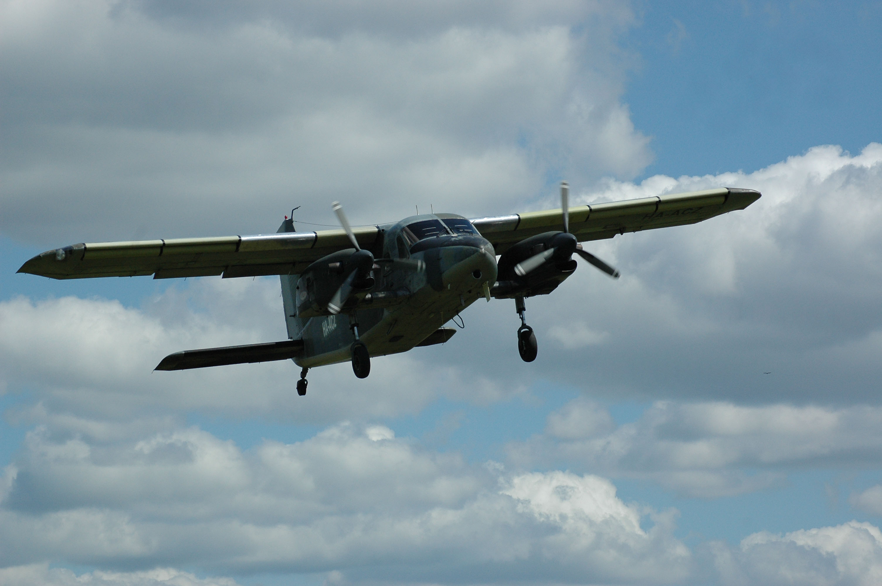 Dornier Do-28 G.92 inflight